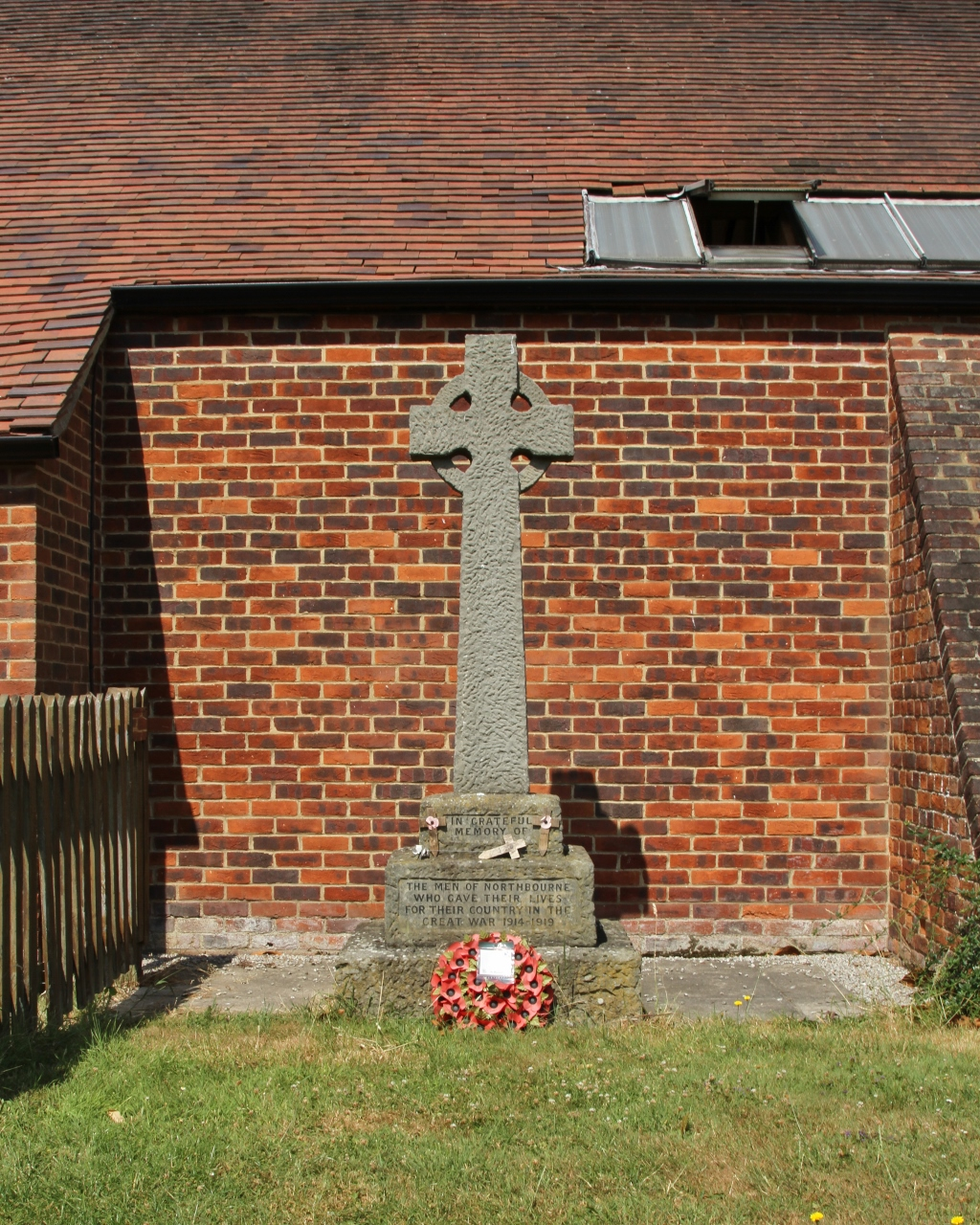 Northbourne war memorial, St Peter's parish churchyard, Glebe Road, Northbourne, Didcot, Oxfordshire (formerly Berkshire)